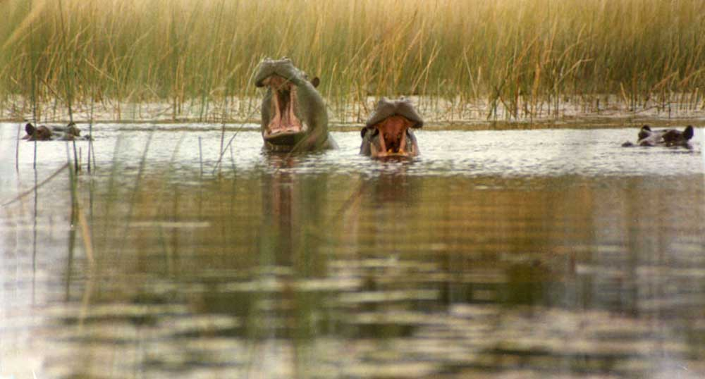 Taken and donated by user:Guinnog